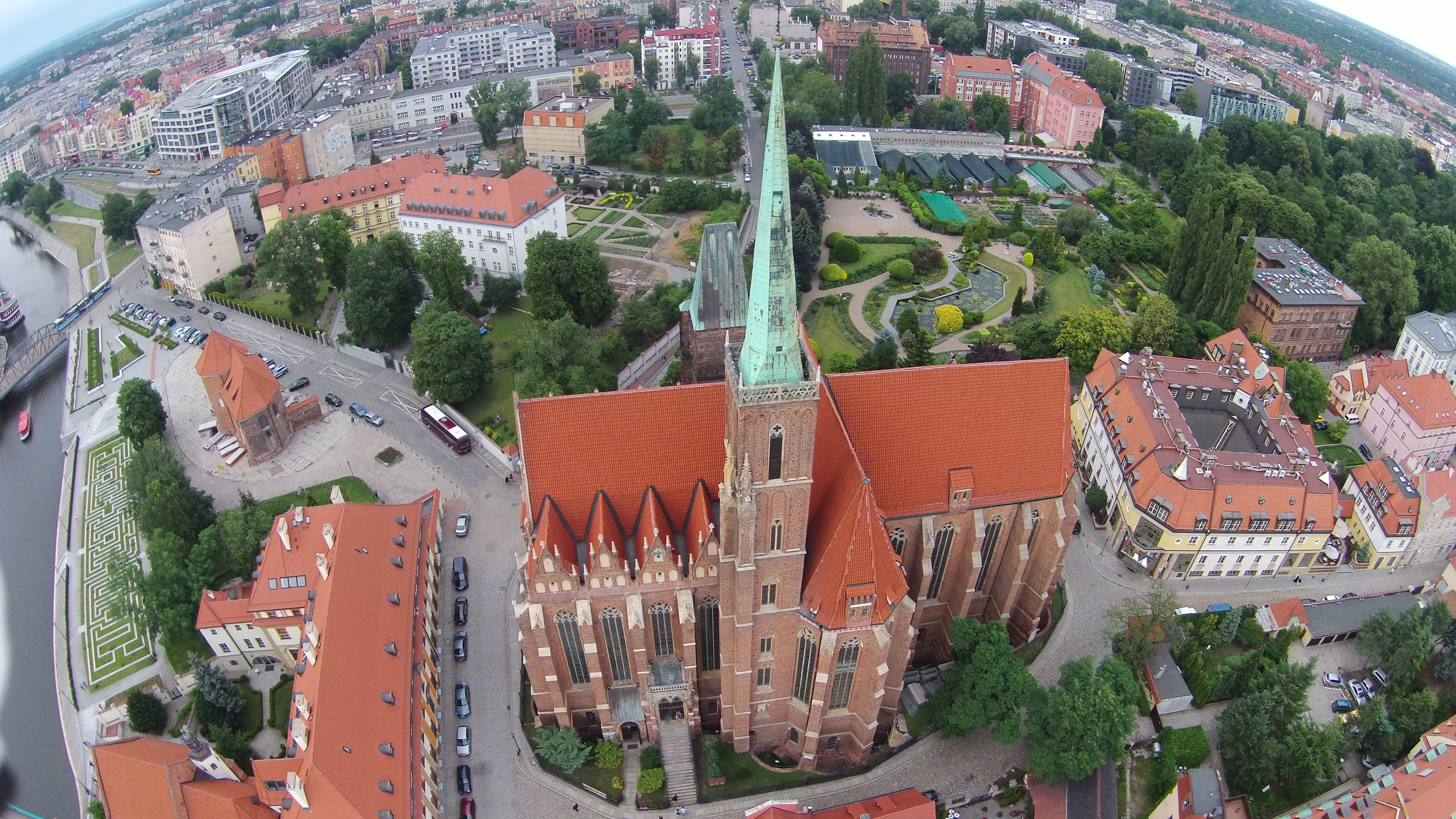 Collegiate Church of the Holy Cross and St. Bartholomew in Wrocław